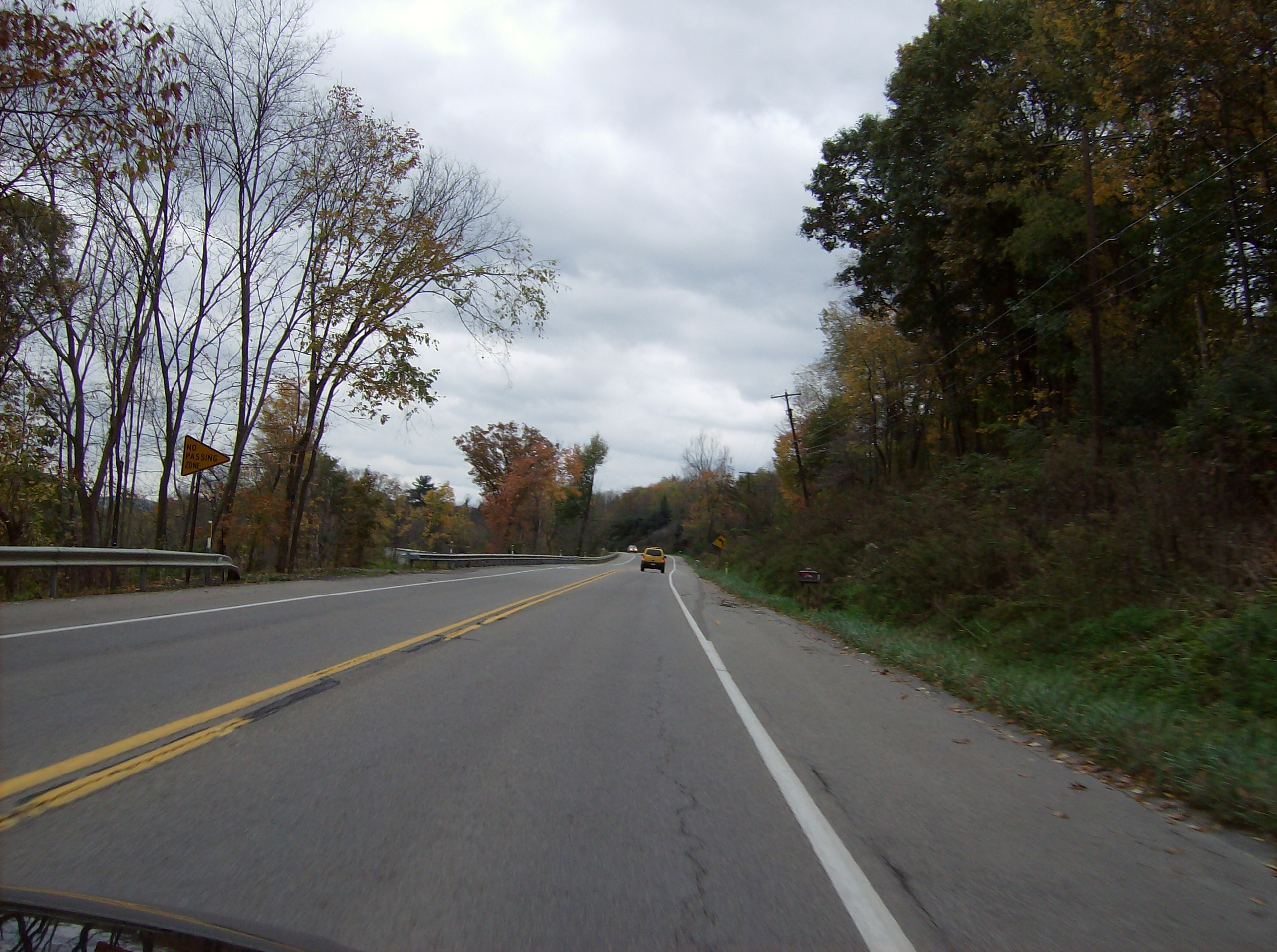 Along eastbound Pennsylvania Route 68 in central Jackson Township, Butler County, Pennsylvania, United States.